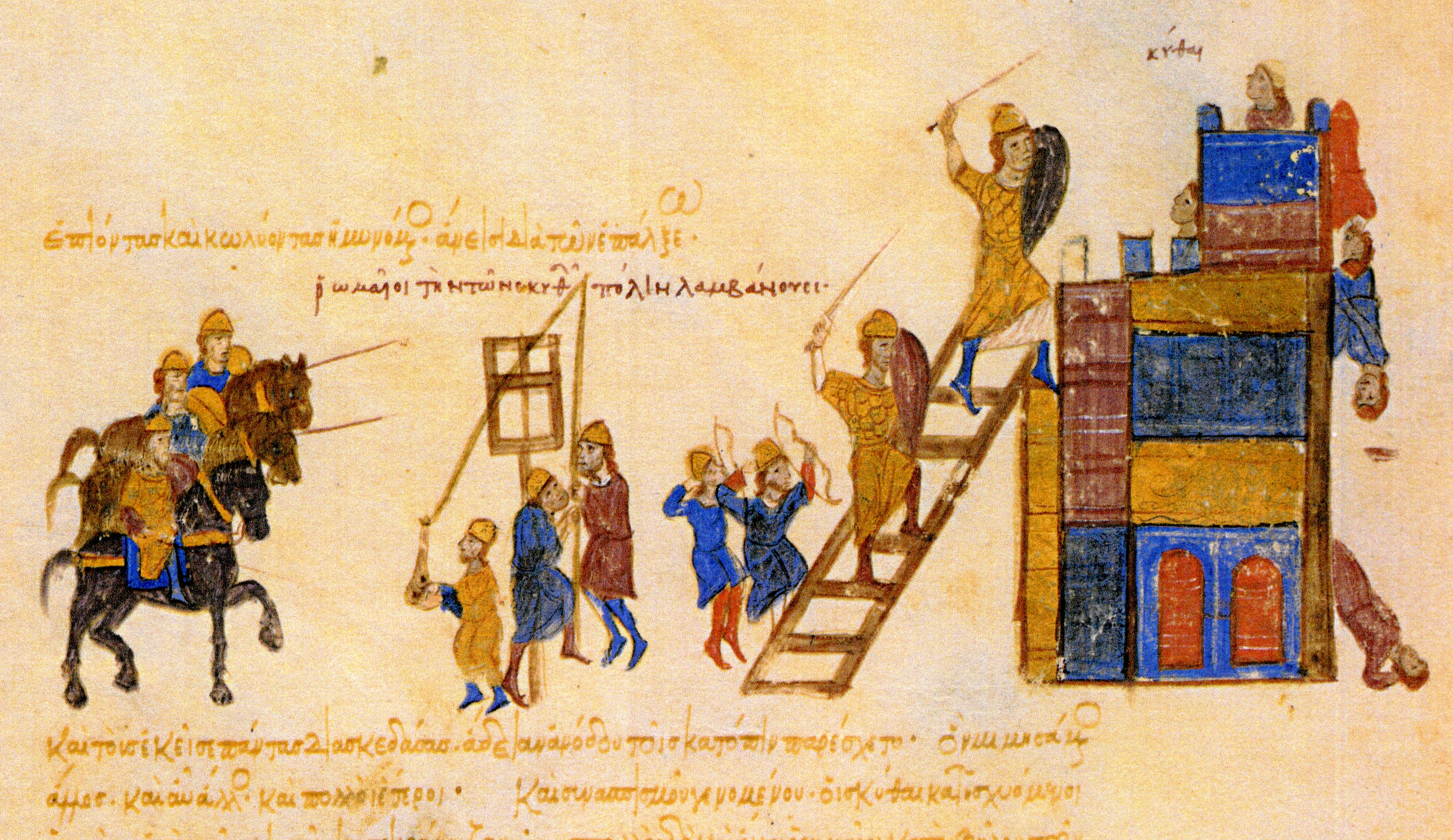 Skyllitzes Matritensis, fol. 166r, detail Miniature: The byzantines (under Emperor John Tzimiskes) conquer the city of Preslav.